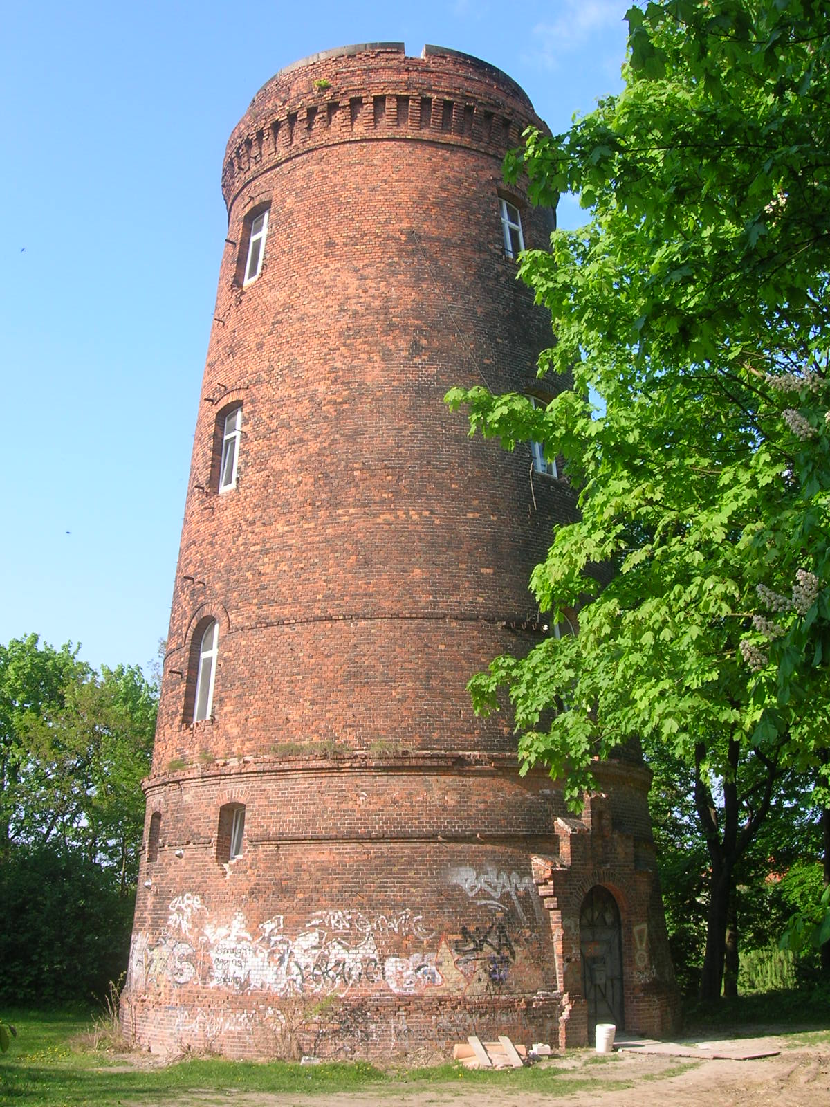 Water tower at the Obersee in Berlin-Alt-Hohenschönhausen